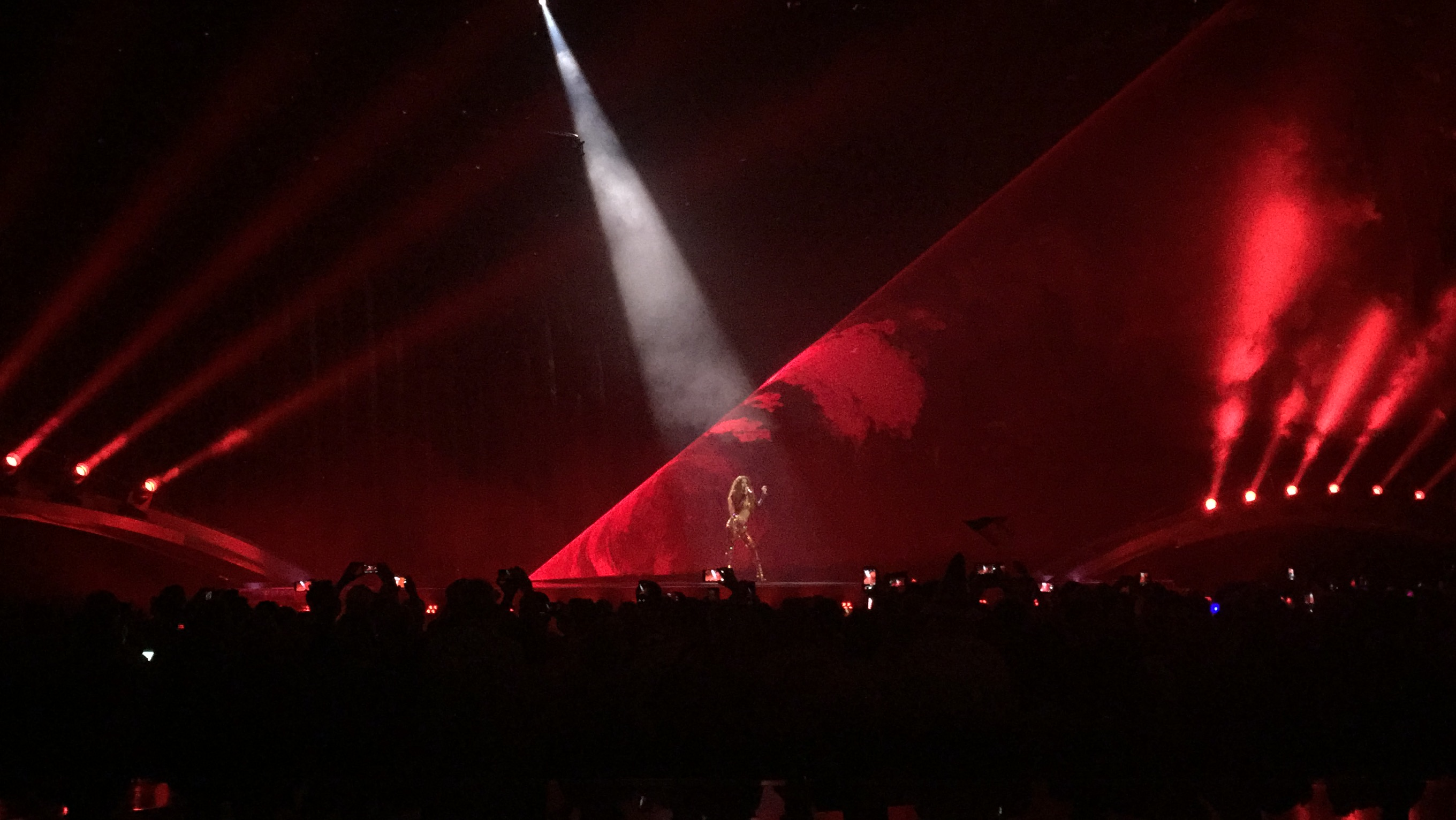 Greek singer Eleni Foureira performing "Fuego" at Eurovision 2018.